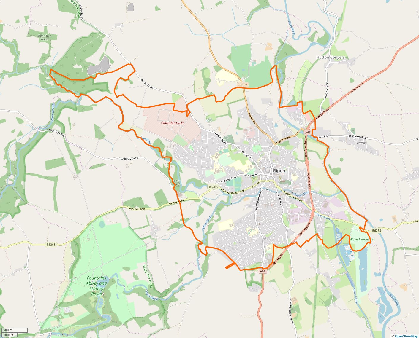 Ripon showing city/parish boundary